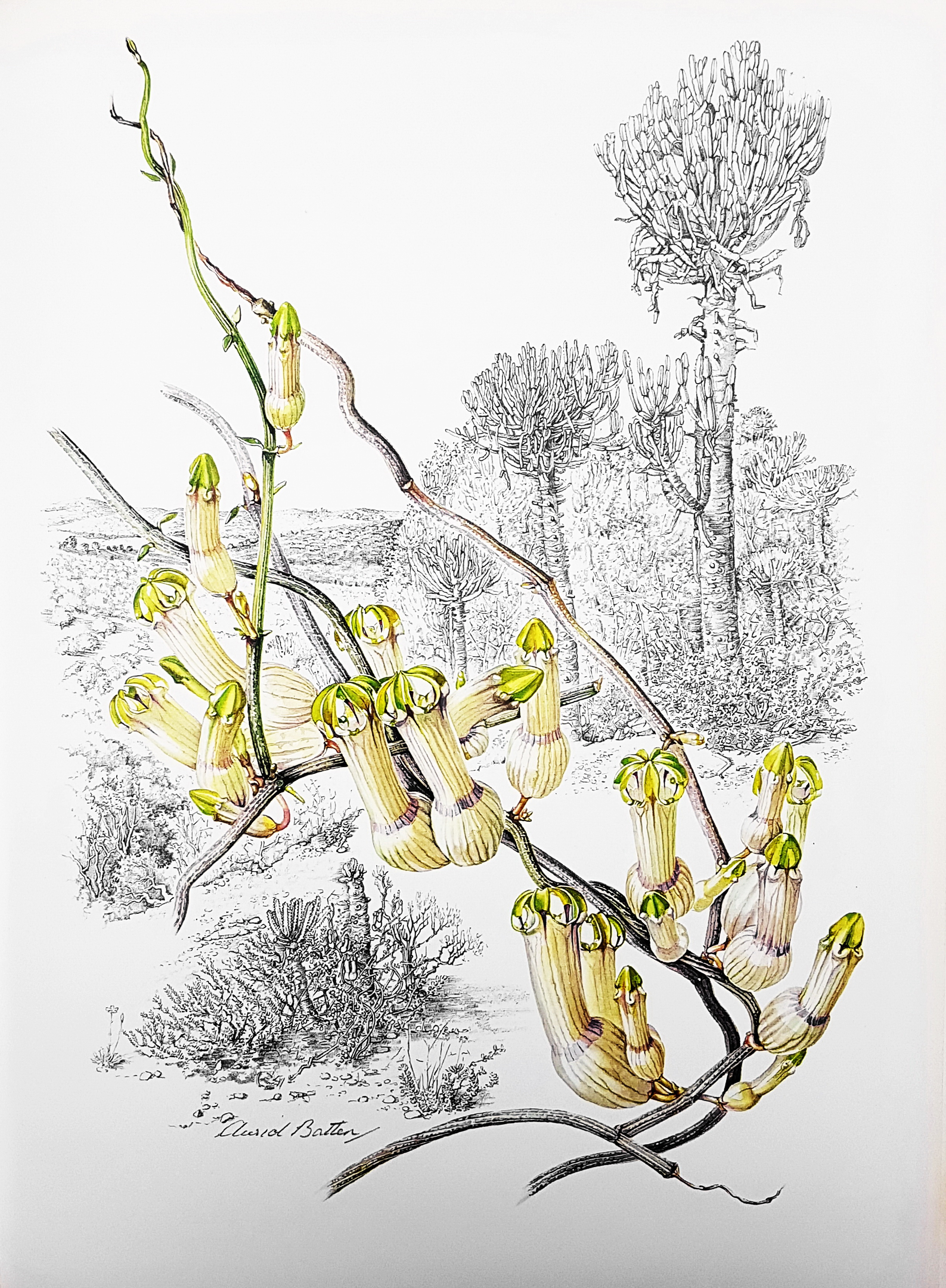 Plate depicting Ceropegia ampliata E.Mey.